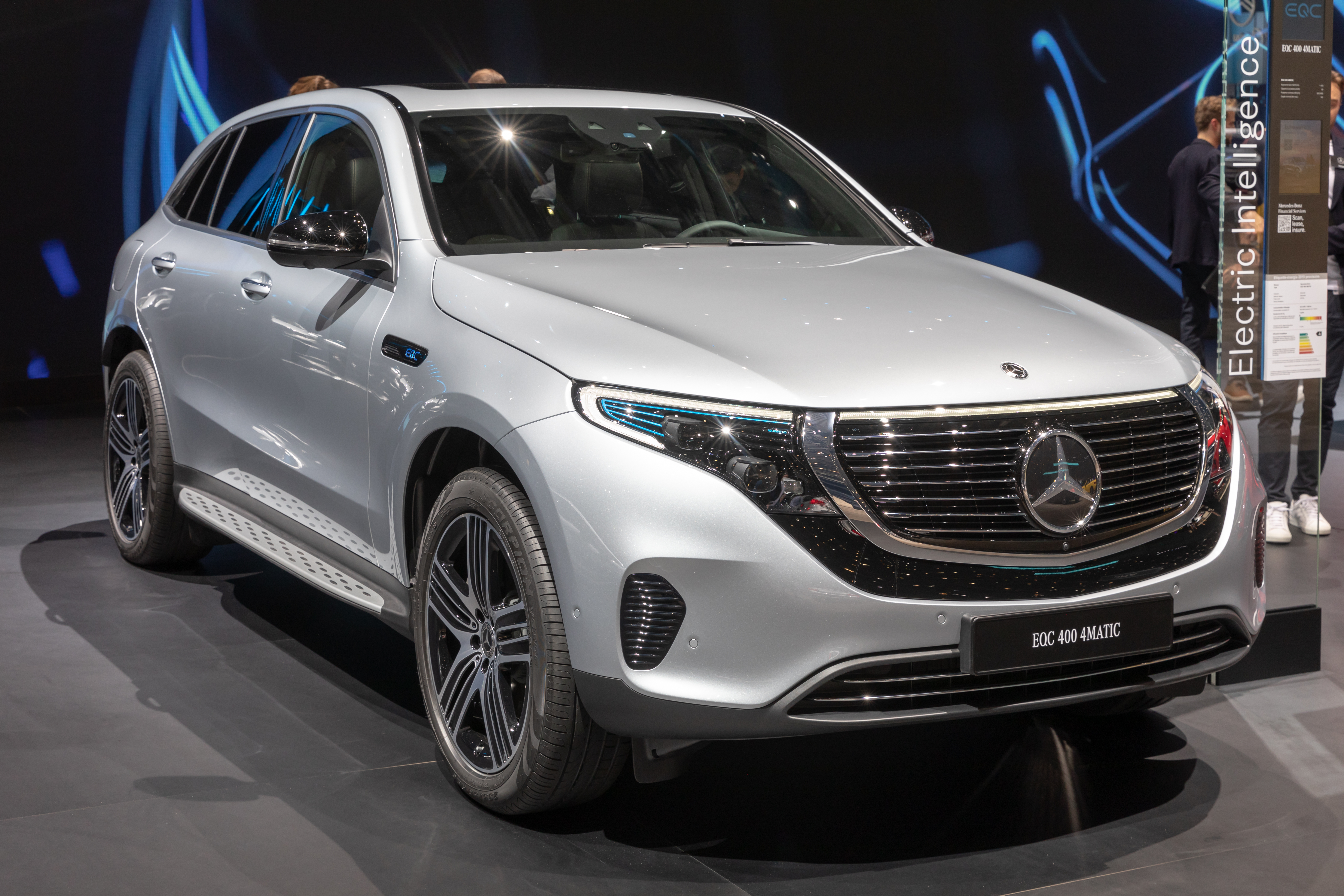 Geneva International Motor Show 2019, Le Grand-Saconnex